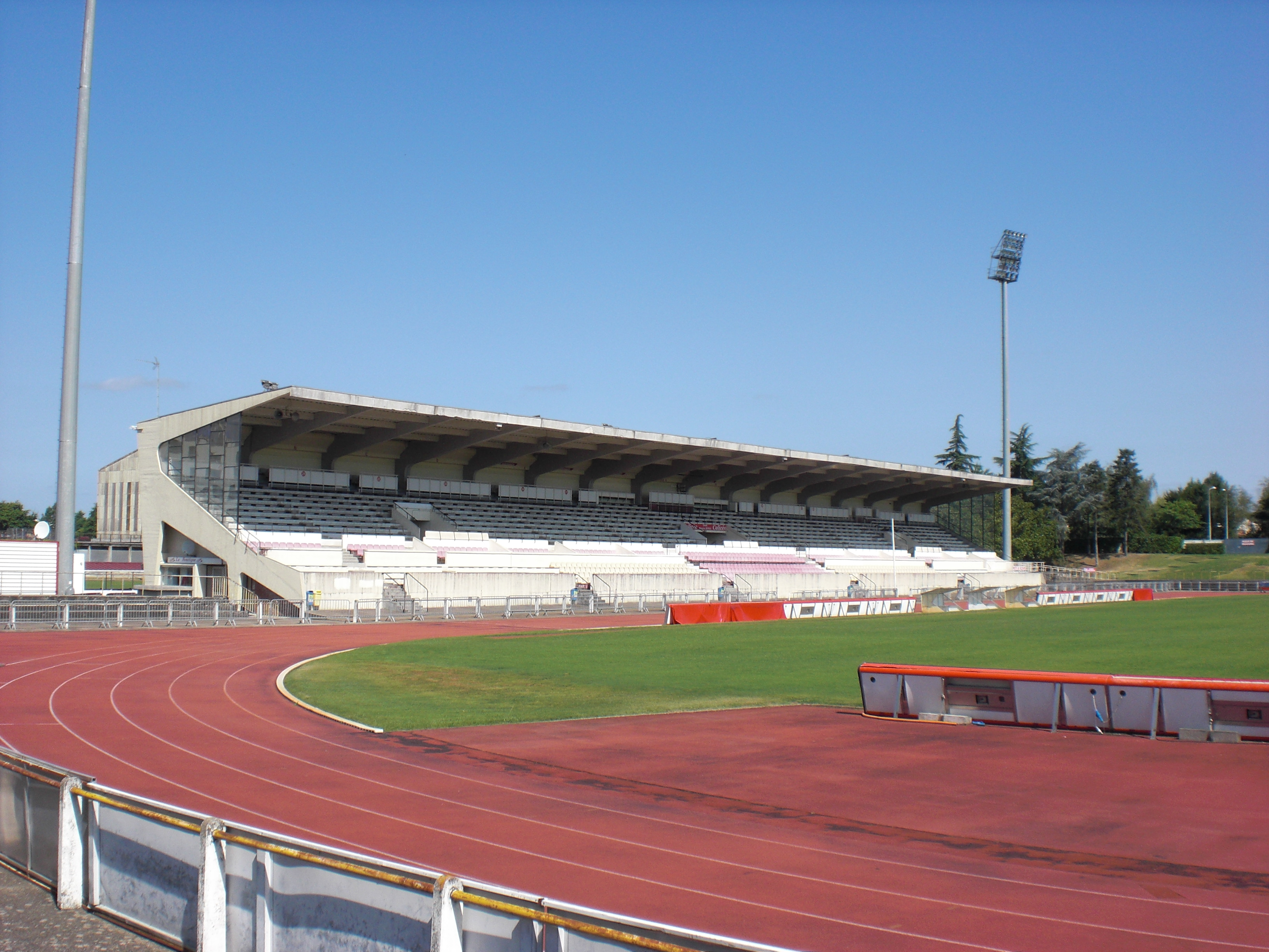 Honor tribune of Stade Maurice Boyau.